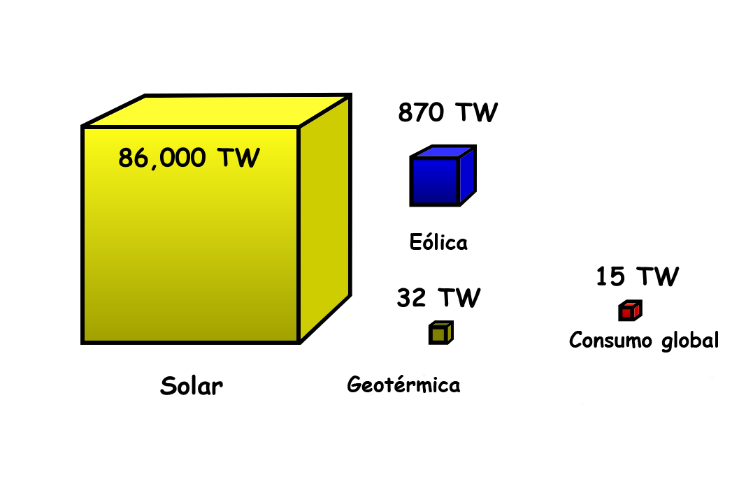 Available energy graphic in spanish